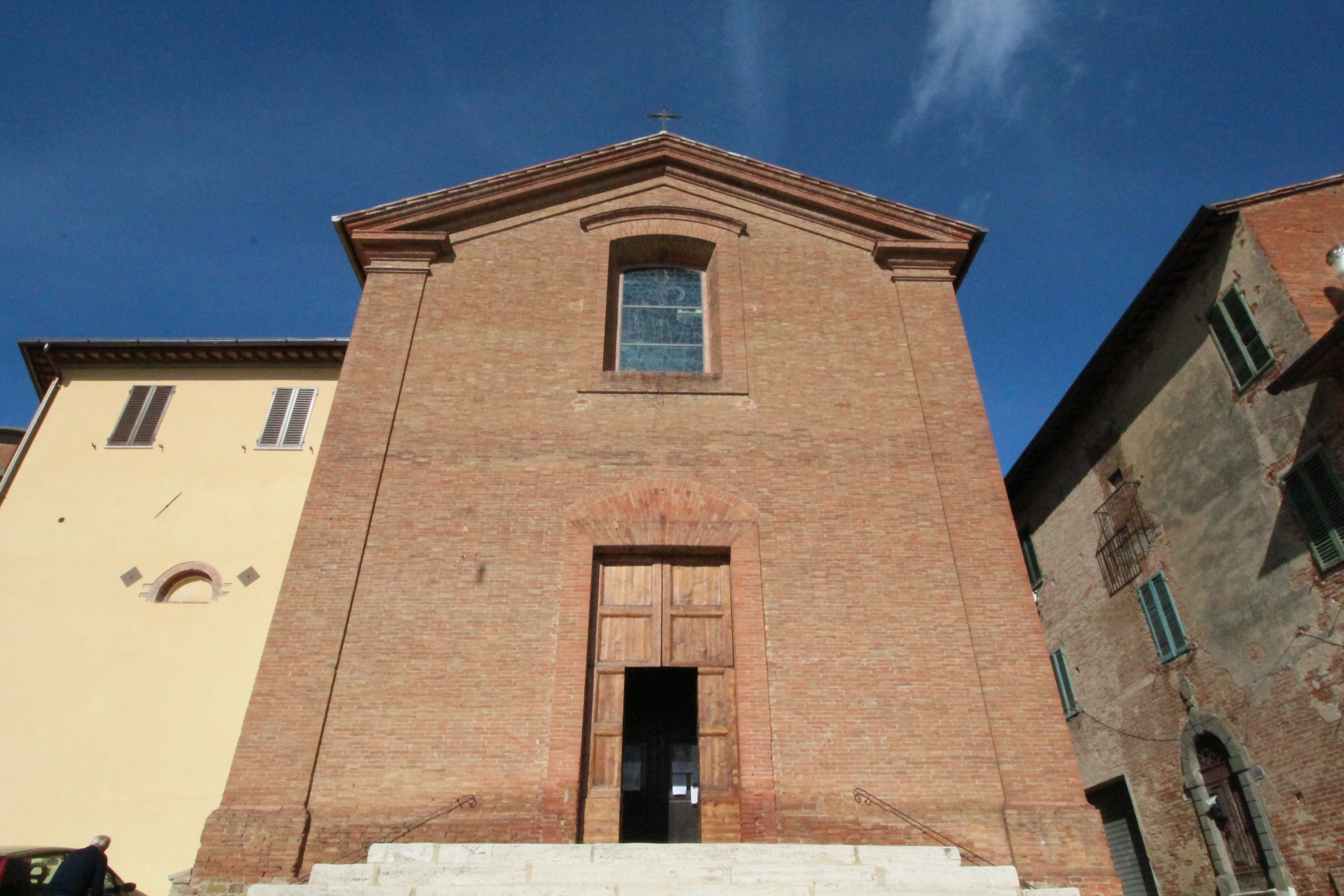 Church San Cristoforo, Bettolle, hamlet of Sinalunga, Province of Siena, Tuscany, Italy